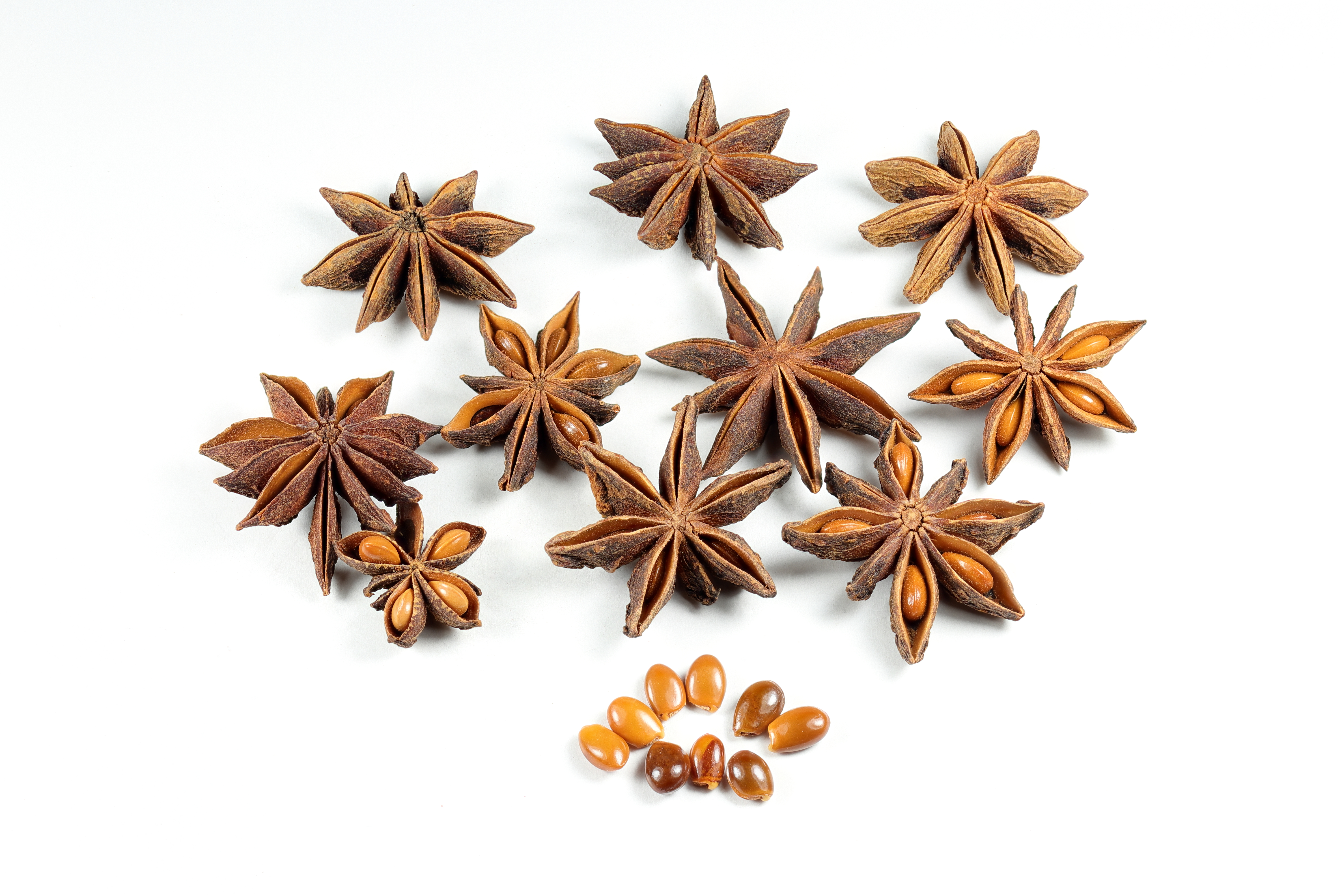 Dried fruits and seeds of the tree Star anise (Illicium verum). These fruit and seeds are ground to be used as spice in Asian cuisine.